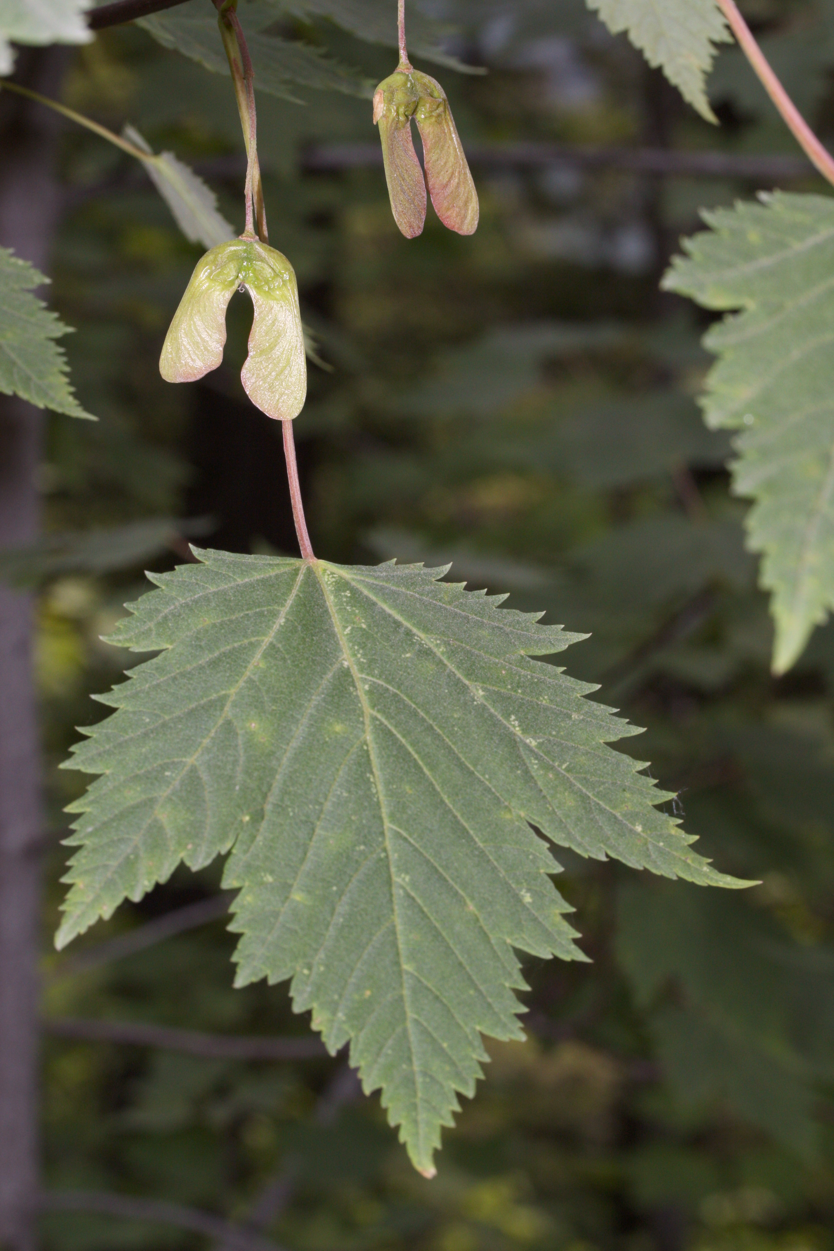 Douglas Maple samara and leaf